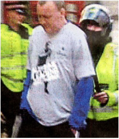 A still from video footage obtained by The Guardian showing what appears to be a police assault of Ian Tomlinson on April 1, 2009.